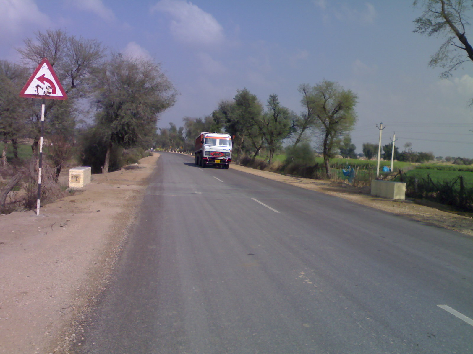 I have taken this image(User:Shemaroo, ).Mdr 103 or major district road 103 is passing through a village of Gharsana tehsil.Photo is taken near 4Klm bus stand. Shemaroo (talk) 01:52, 16 February 2011 (UTC)